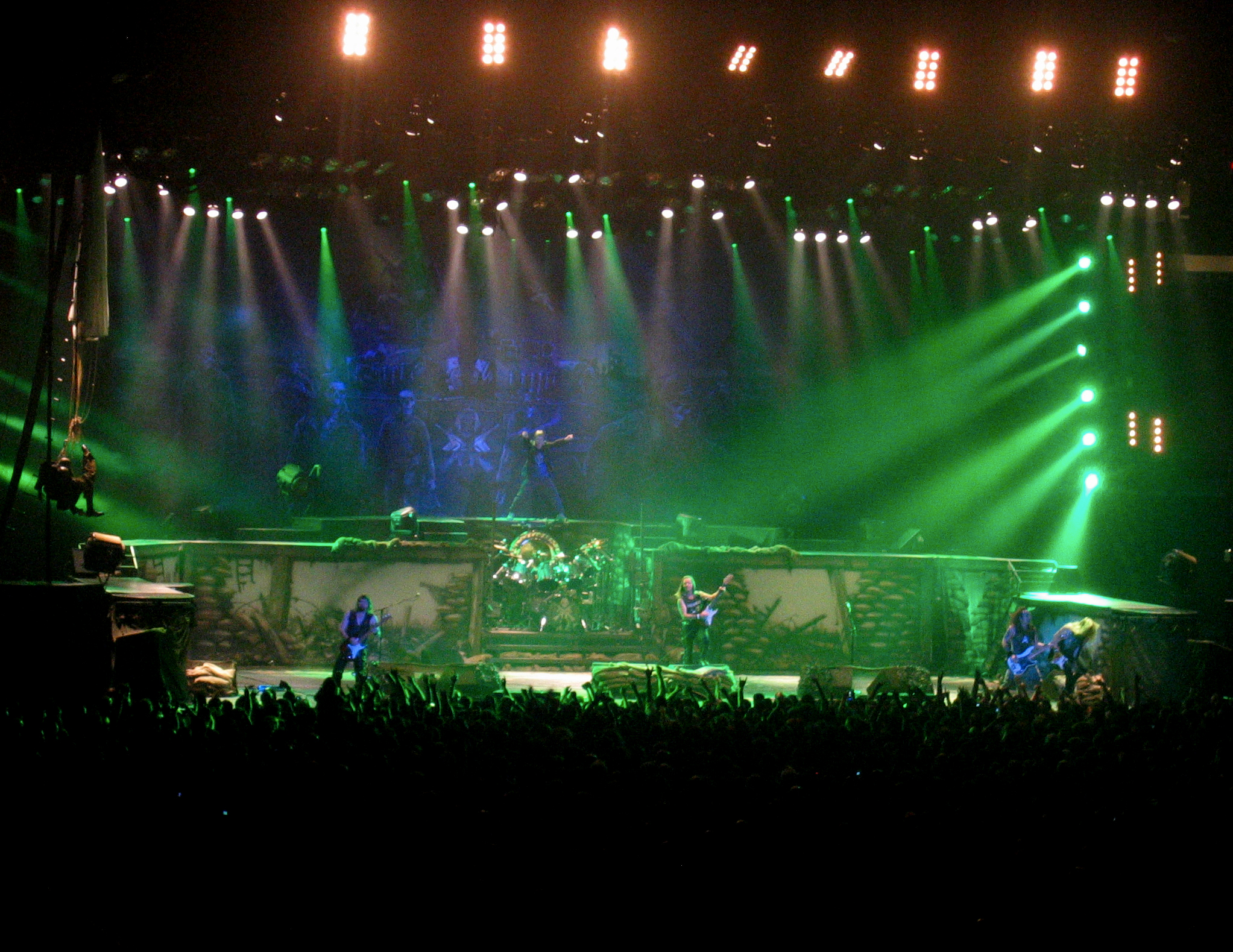 Iron Maiden performing in Long Island during the A Matter of Life and Death Tour, 12 October 2006